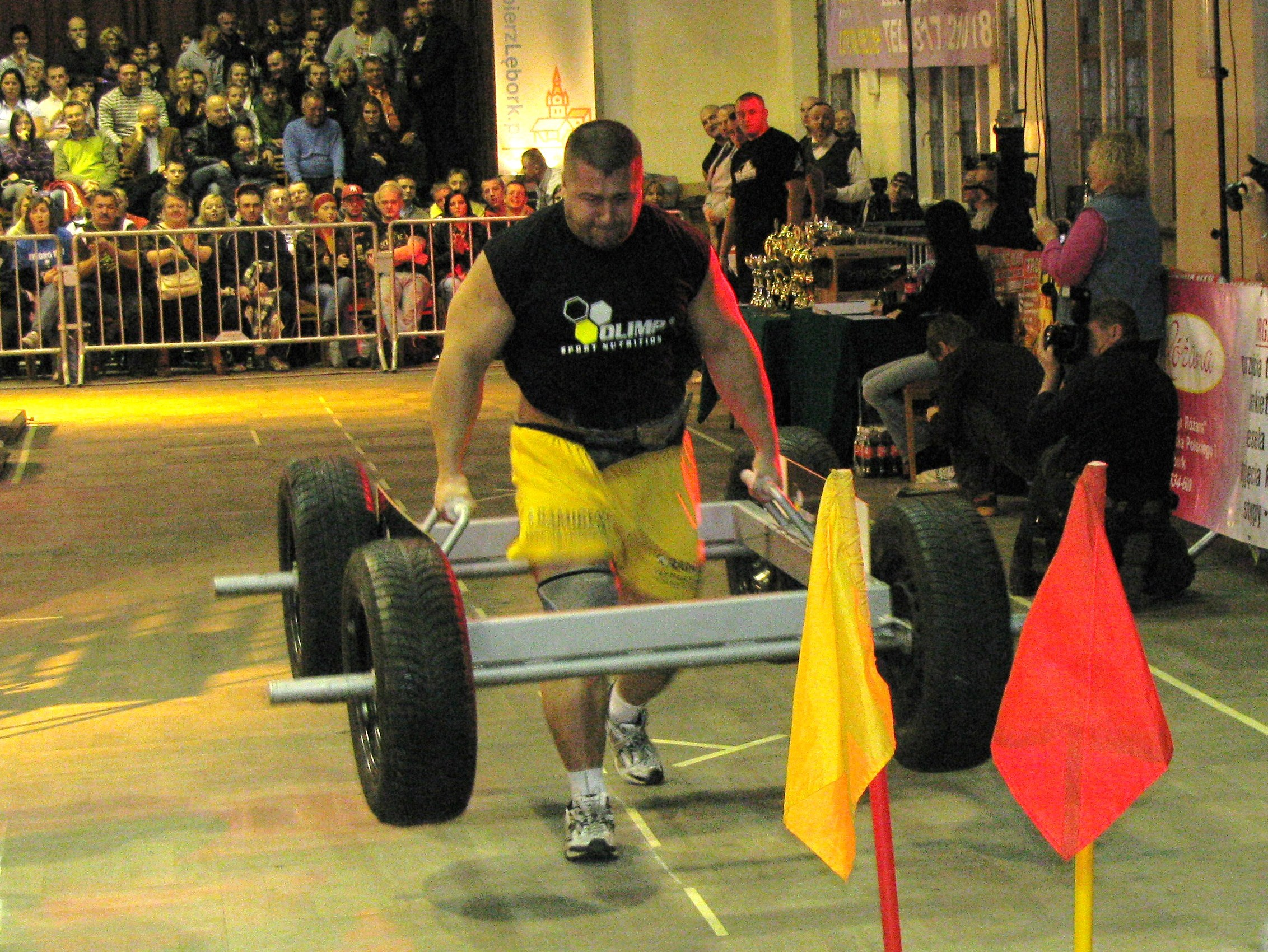 Strongmen event: Frame Carry.